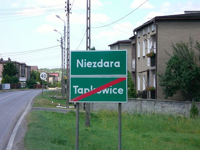 Nameplate from village Niezdara/Tąpkowice